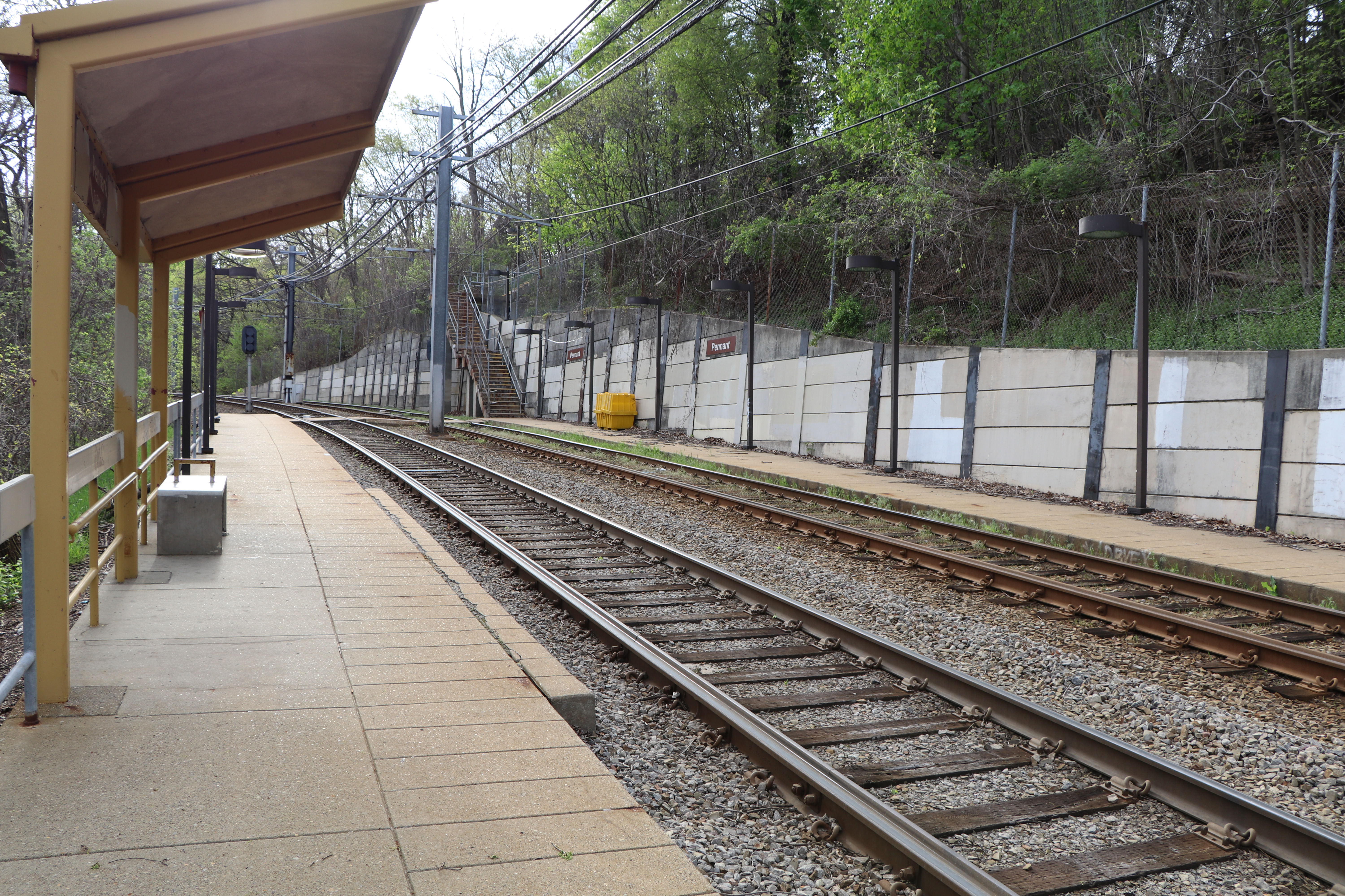 Pennant station on the Red Line, Pittsburgh, PA. View looking west at the outbound platform. The station is below the neighborhood it serves and is only accessible by a long staircase.